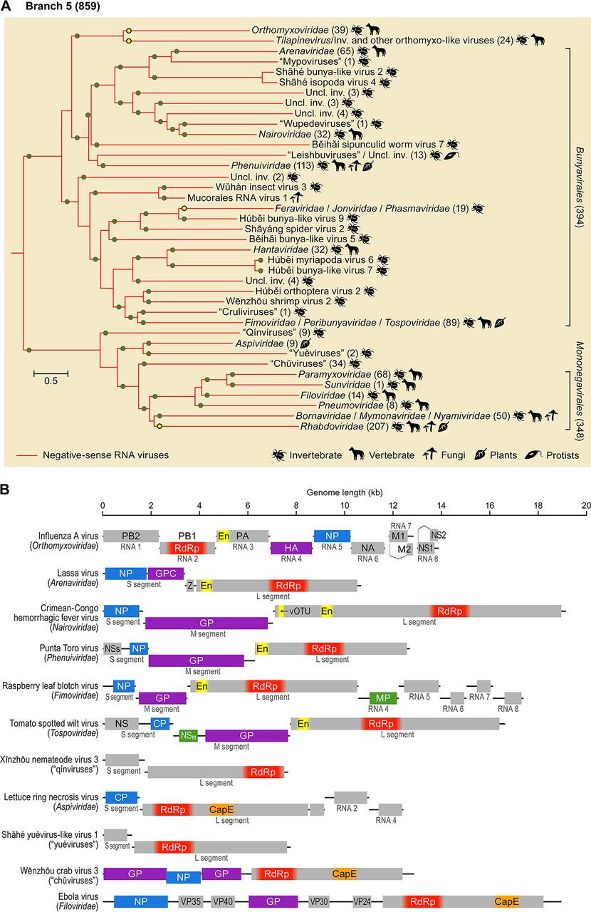 Branch 5 of the RNA virus RNA-dependent RNA polymerases (RdRps): −RNA viruses. (A) Phylogenetic tree of the virus RdRps showing ICTV-accepted virus taxa and other major groups of viruses. Approximate numbers of distinct virus RdRps present in each branch are shown in parentheses. Symbols to the right of the parentheses summarize the presumed virus host spectrum of a lineage. Green dots represent well-supported (≥0.7) branches, whereas yellow dots correspond to weakly supported branches. Inv., viruses of invertebrates (many found in holobionts, making host assignment uncertain); uncl., unclassified. (B) Genome maps of a representative set of branch 5 viruses (drawn to scale) showing color-coded major conserved domains. Where a conserved domain comprises only a part of the larger protein, the rest of this protein is shown in light gray. The locations of such domains are approximated (indicated by fuzzy boundaries). CapE, capping enzyme; CP, capsid protein; EN, “cap-snatching” endonuclease; GP, glycoprotein; GPC, glycoprotein precursor; HA, hemagglutinin; M, matrix protein; MP, movement protein; NA, neuraminidase; NP, nucleoprotein; NS, nonstructural protein; NSM, medium nonstructural protein; NSs, small nonstructural protein; PA, polymerase acidic protein; PB, polymerase basic protein; vOTU, virus OTU-like protease; VP, viral protein; Z, zinc finger protein.